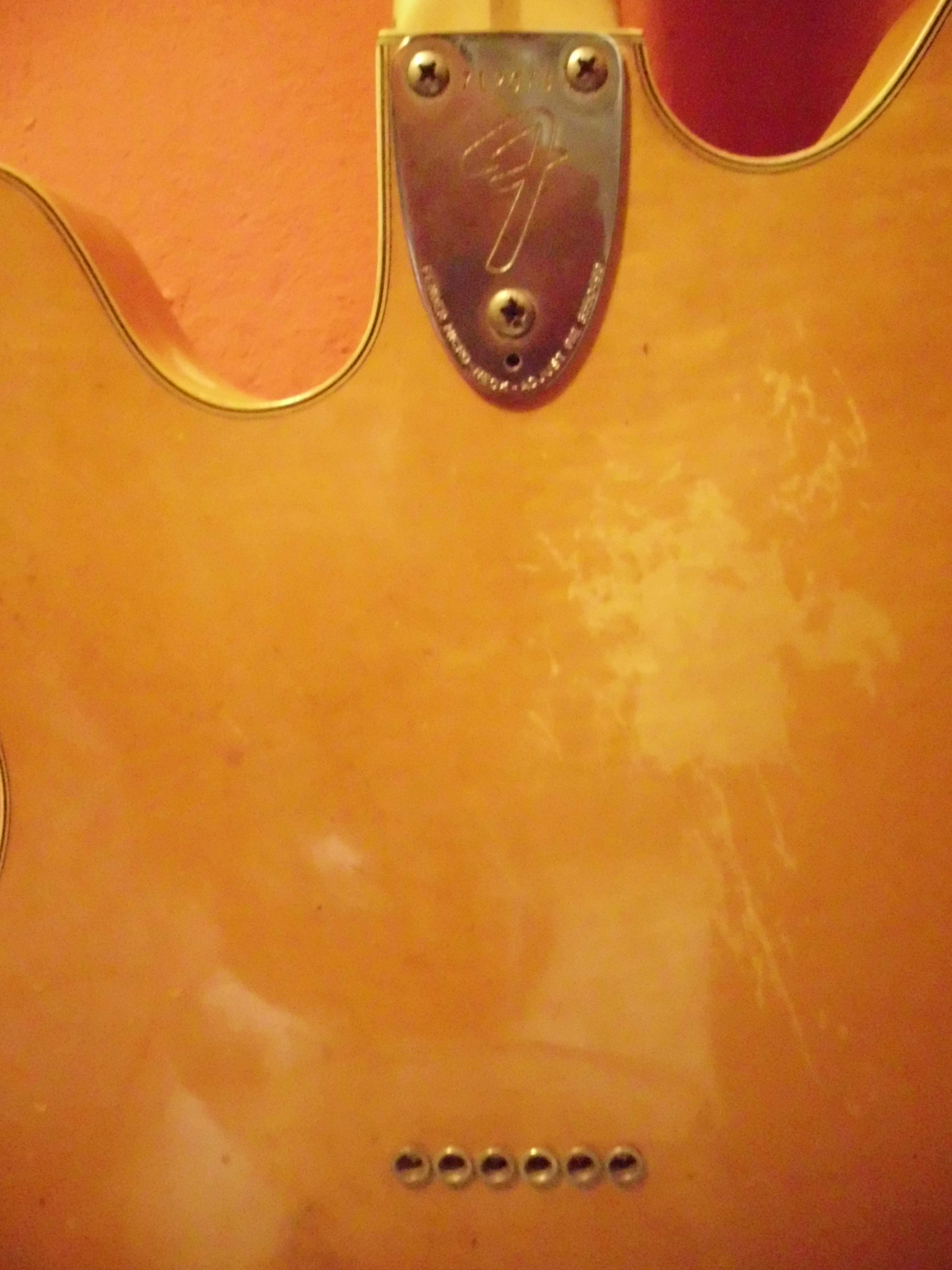 Fender Starcaster, backside